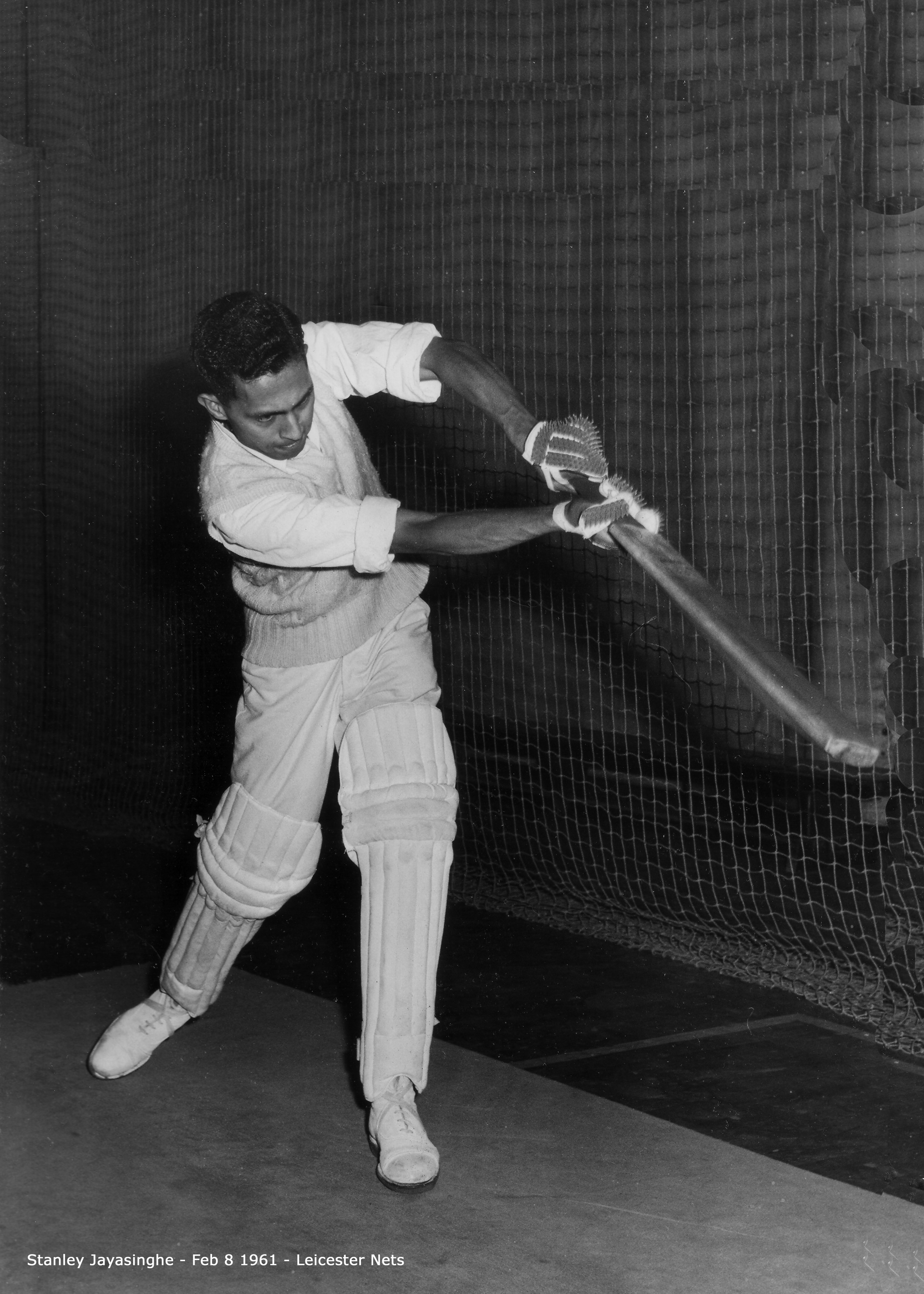 February 8, 1961